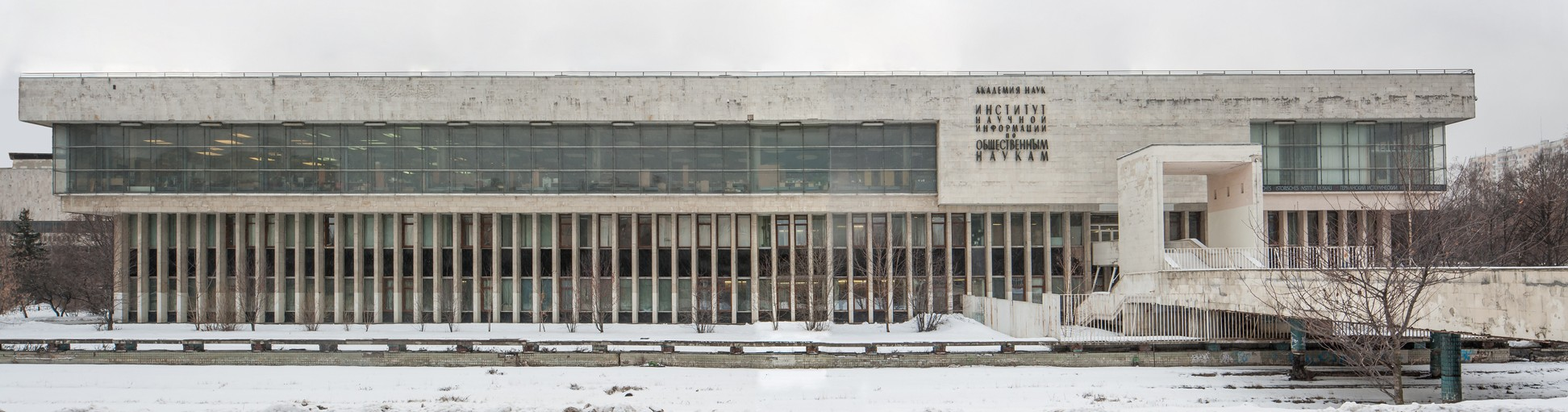 Institute of Scientific Information on Social Sciences of the Russian Academy of Sciences